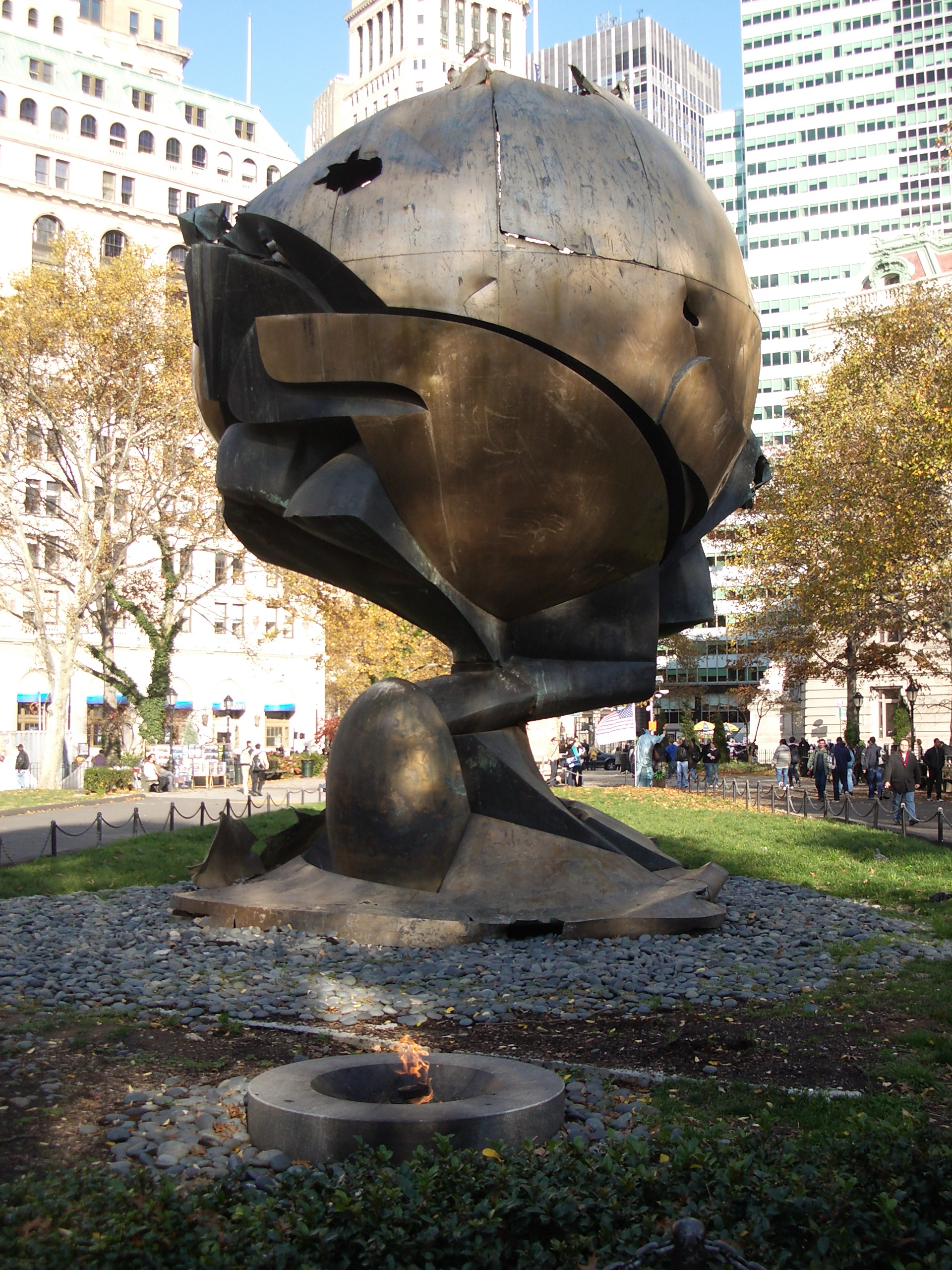 The Sphere in Battery Park, New York, NY. Eternal flame in the foreground.